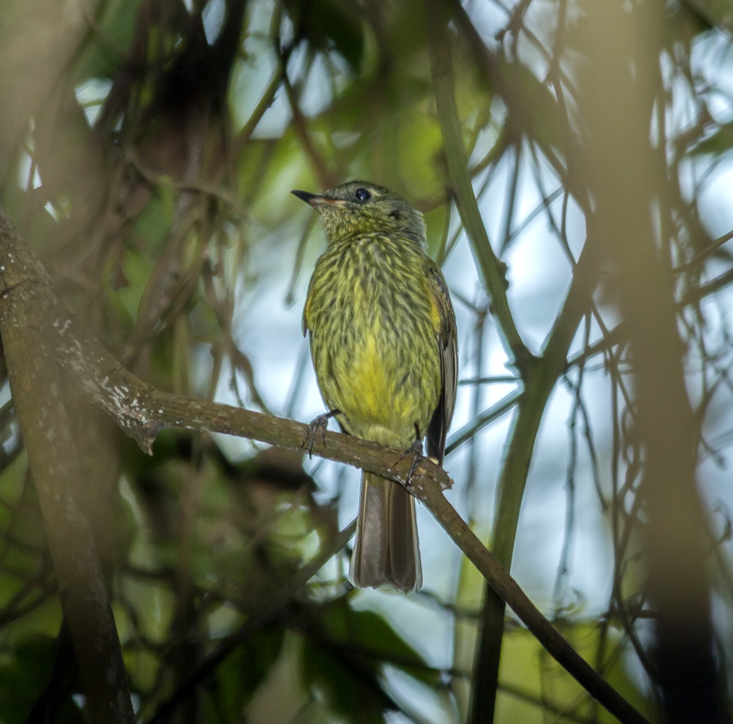 Olive-striped Flycatcher | Atrapamoscas Frutero Rayado (Mionectes olivaceus venezuelensis)